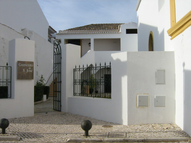 Entrance area to the Convent of São José in Lagoa, Algarve, Portugal.